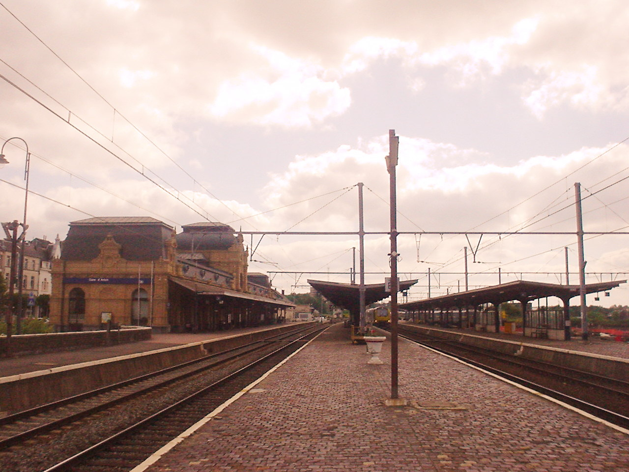 Arlon train station, Belgium: view from the tracks.